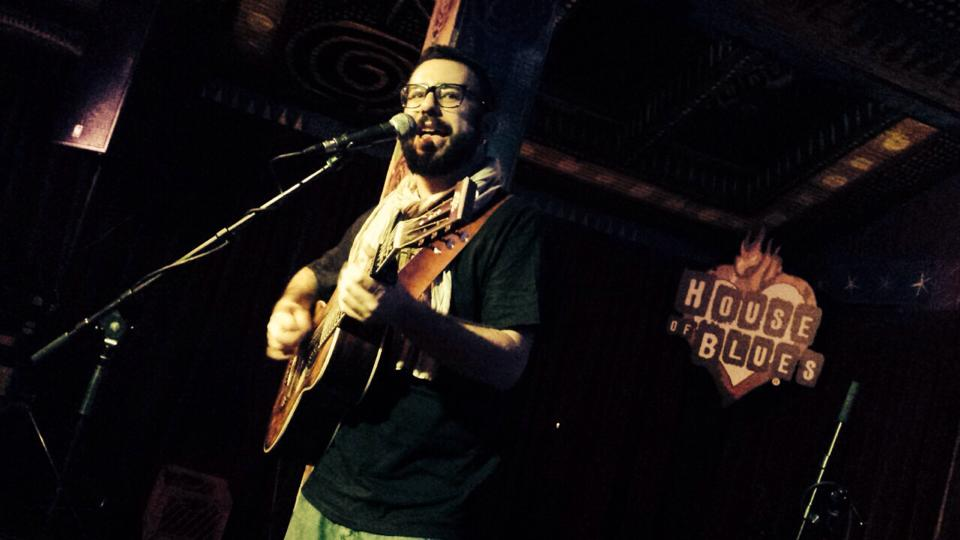 Bluesman